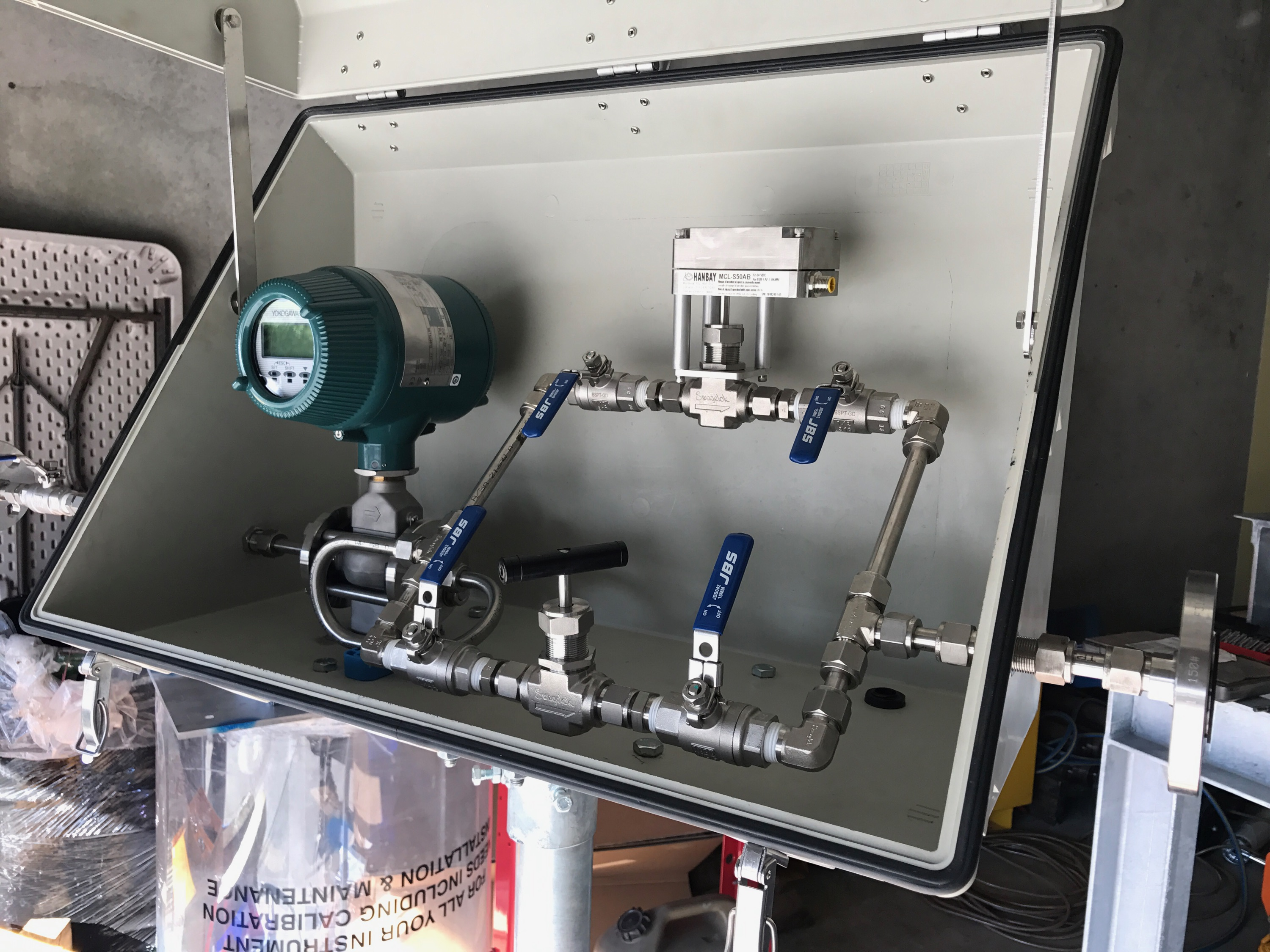 Valve actuator in a process system